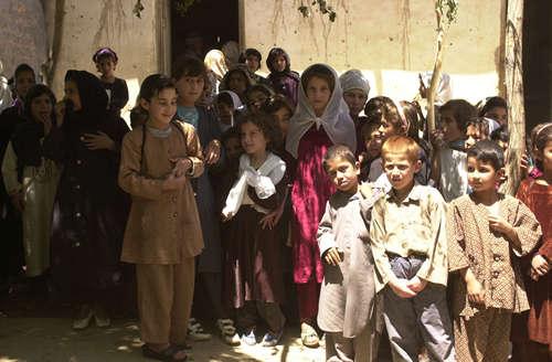 Afghan children. Students from an all-girls school in Bagram, Afghanistan, watch expectantly as U.S. soldiers bearing food and toys arrive at their school.